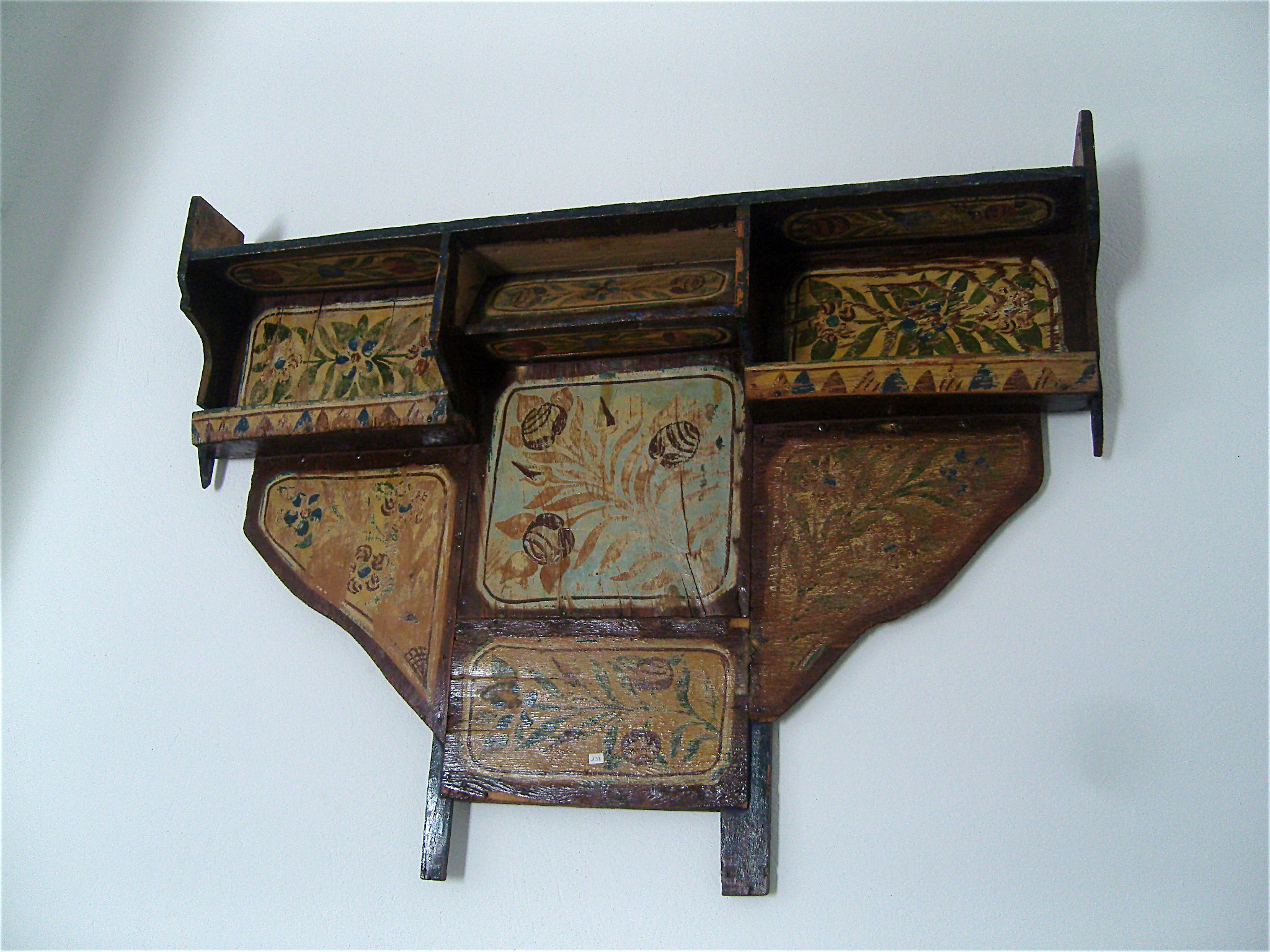 Traditional furniture in the region of Sayada - Tunisia